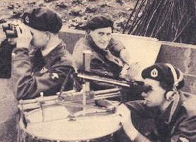 Post Instrument with Mickelthwait height adjuster attachment